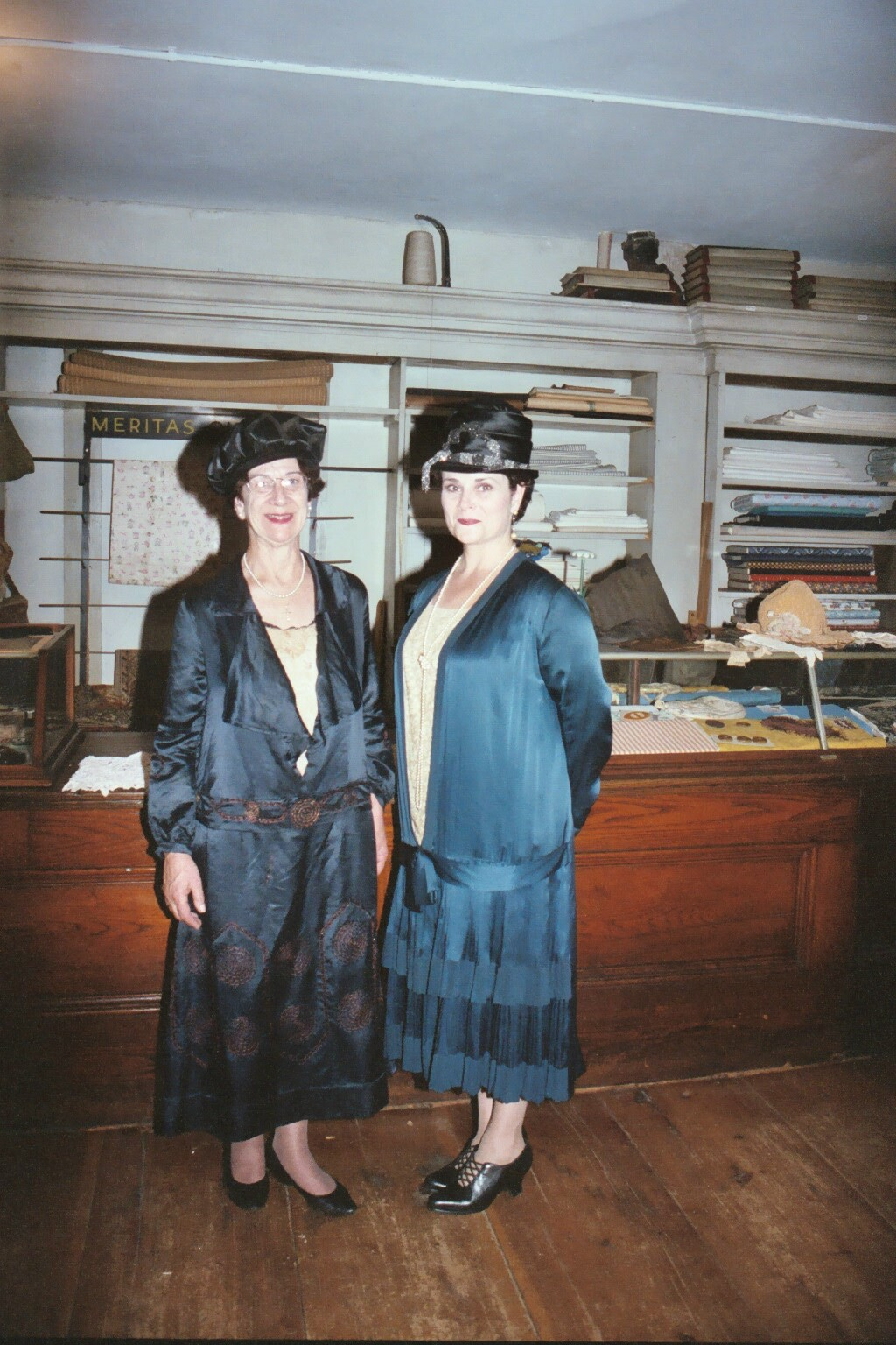 Renactors from Pickwick Players of the Jenckes Sisters in the museum during Douglas Octoberfest.